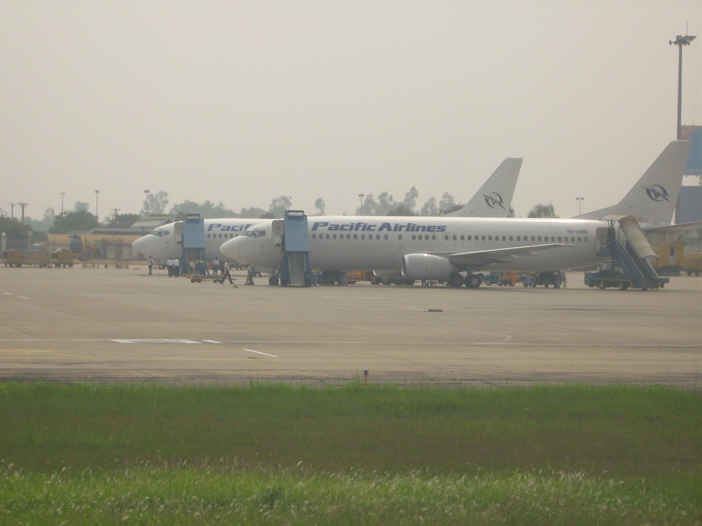 Pacific Airlines in Noibai